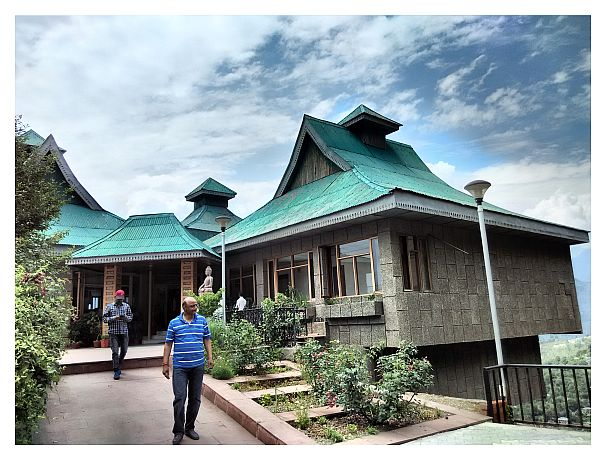 HPTDC Hotel Shrikhand, Sarahan